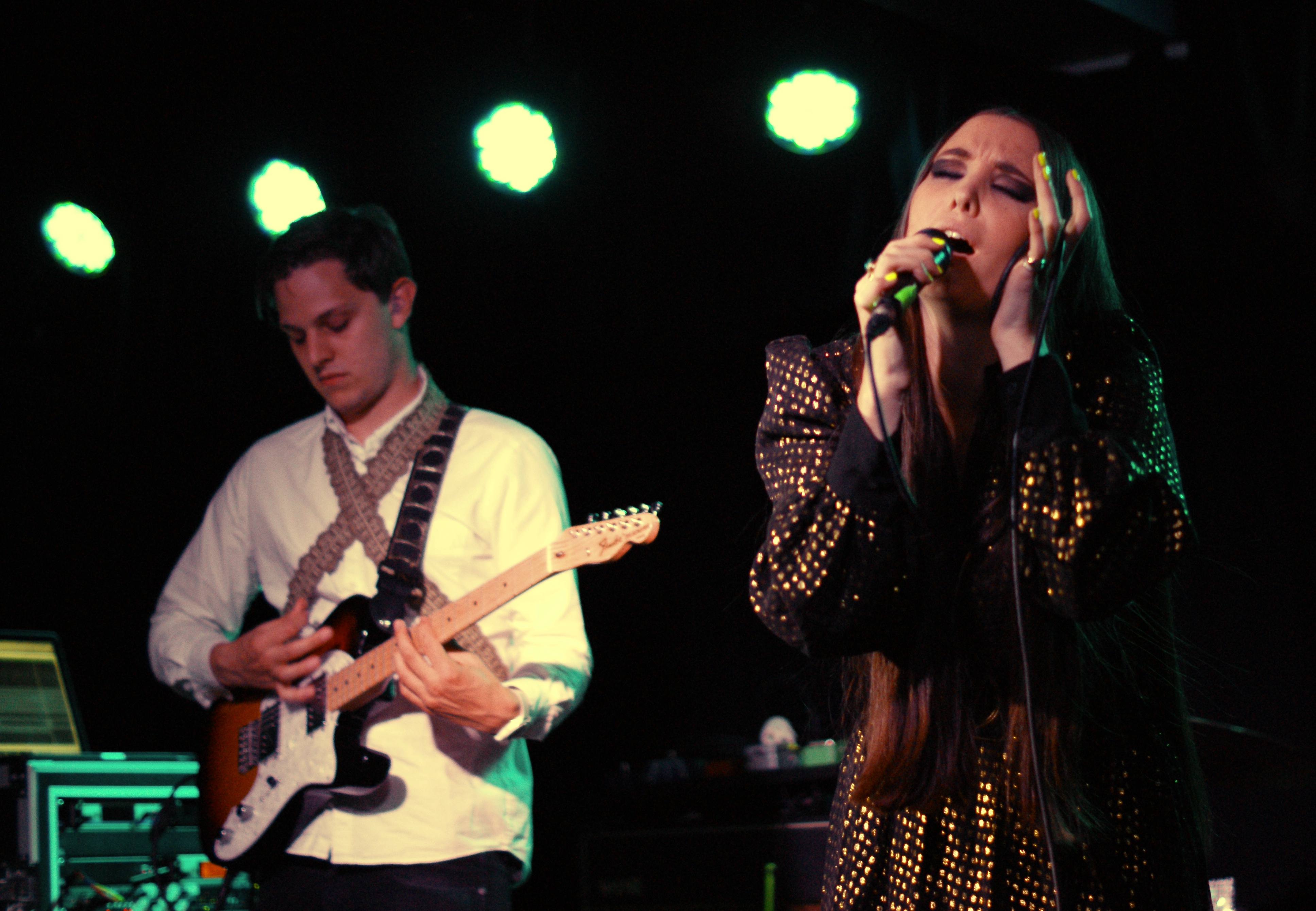 Alpines performing at Club Academy, Manchester, on Tuesday the 30th of August 2011.